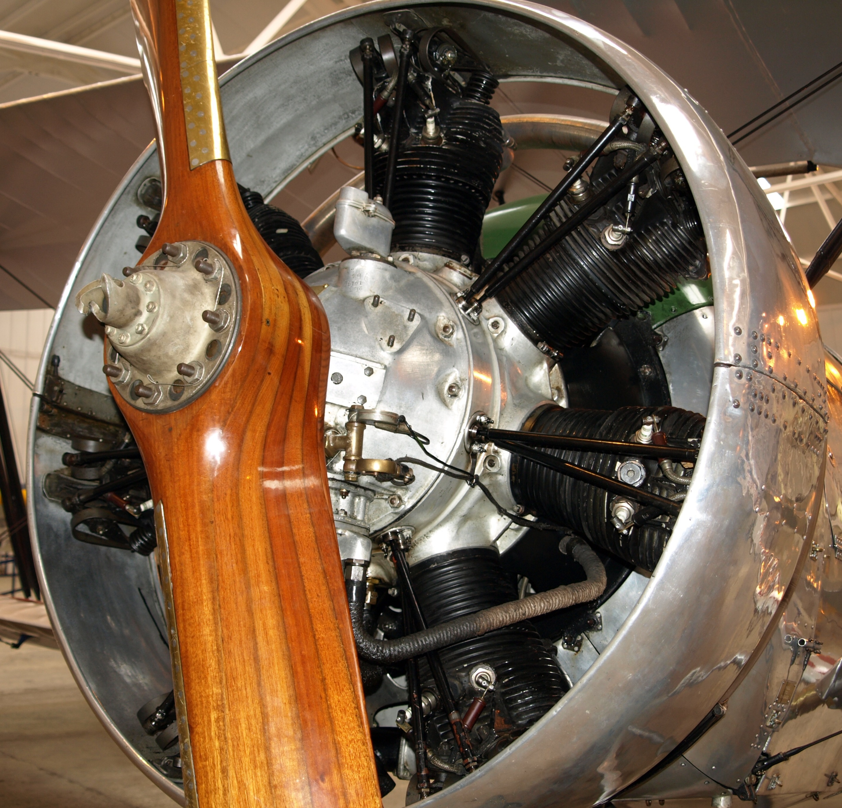 Armstrong Siddeley Lynx aircraft piston engine installed in an Avro Tutor biplane at the Shuttleworth Collection.